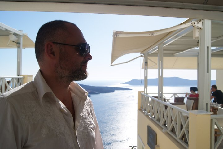 Pianist Jozef Kapustka during a 2010 trip to Greek Islands.